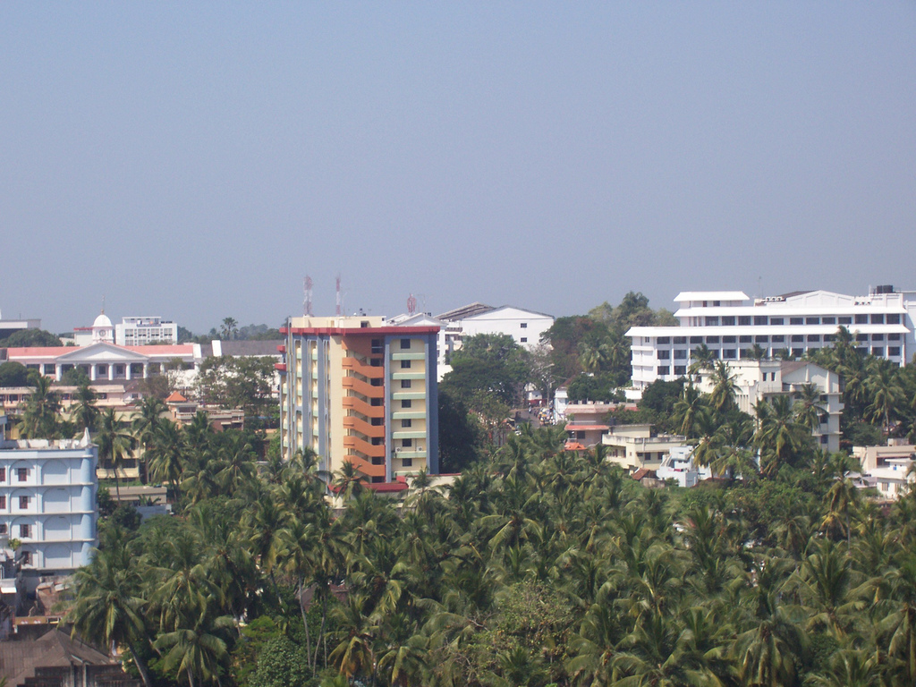 Aerial view of Thiruvananthapuram Statue jn area.